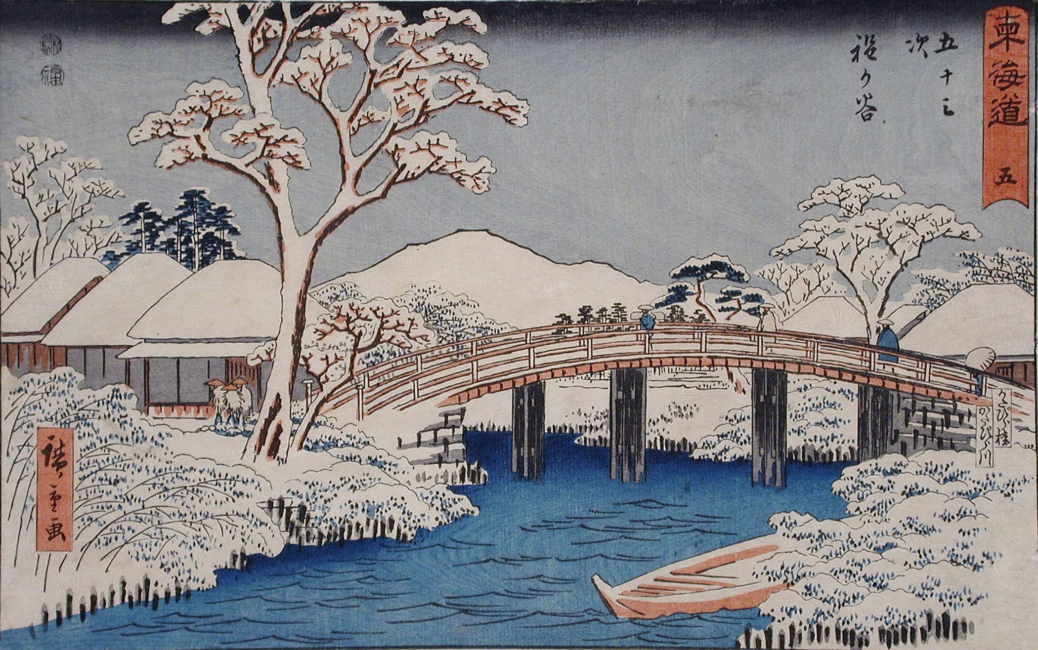 Japan, circa 1848-1849 Series: Fifty-three Stations of the Tokaido, also known as the Reisho Tôkaidô Prints; woodcuts Color woodblock print Image: 8 11/16 x 13 1l/16 in. (22 x 34.7 cm); Sheet: 8 11/16 x 13 11/16 (22.0 x 34.7 cm) Gift of Dr. Harvey Eagleson (M.66.35.26) Japanese Art